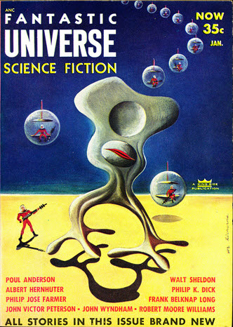 Cover of Fantastic Universe, December 1954